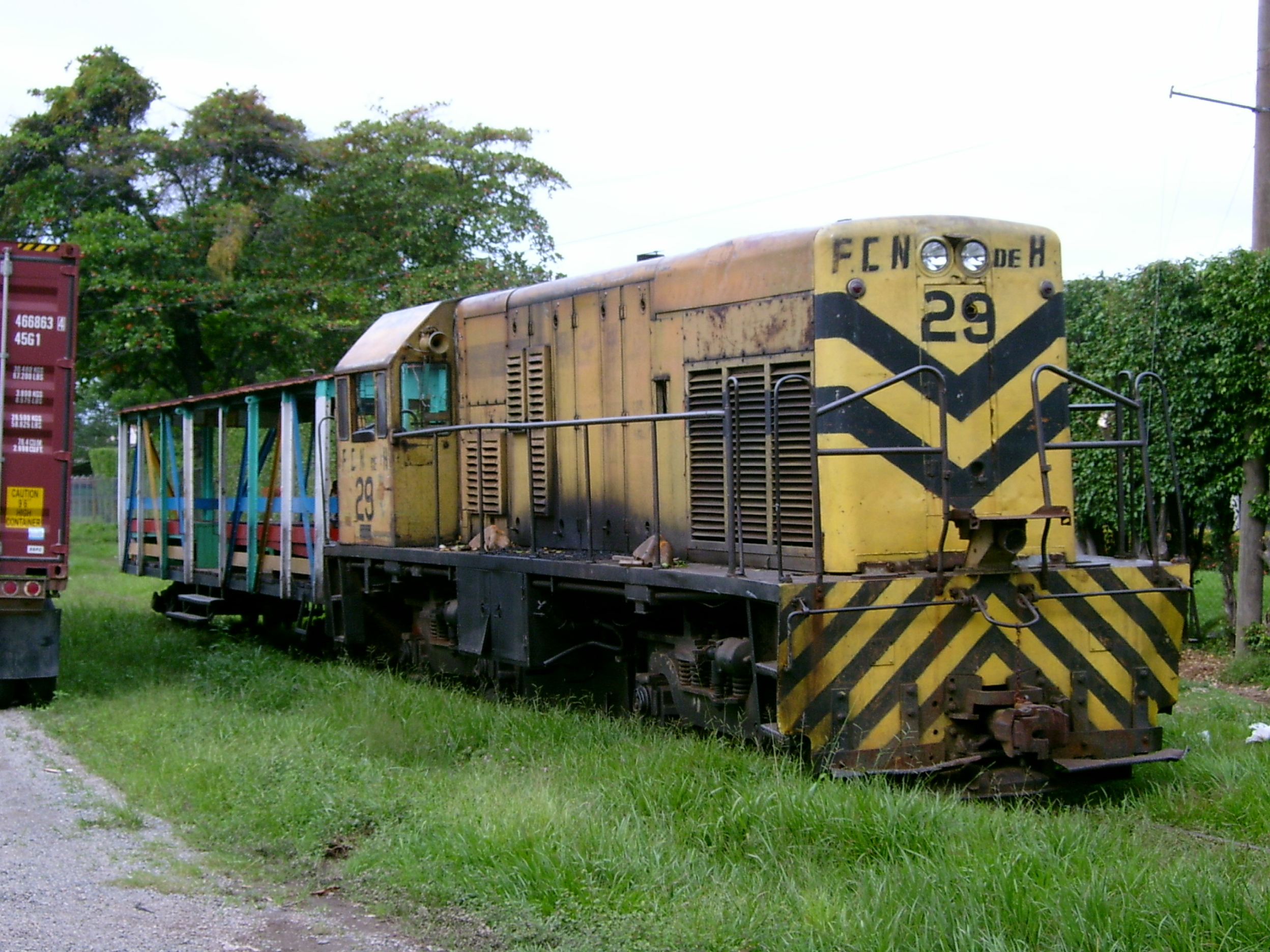 Passenger train of FNH (Ferrocarril Nacional de Honduras) in La Ceiba. It runs about every 30 minutes on an isolated segment between downtown and a western suburb, Col. Sitramacsa.